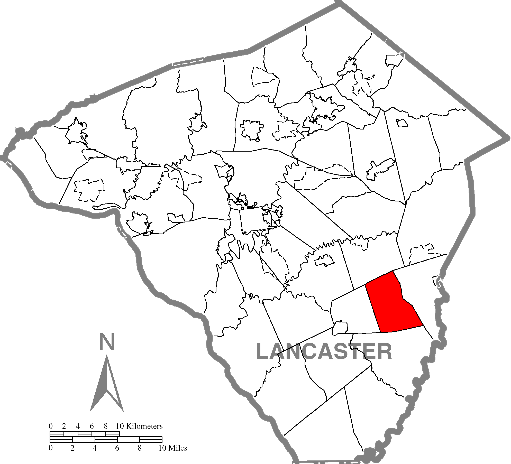 Highlighted Lancaster County map of Bart Township.